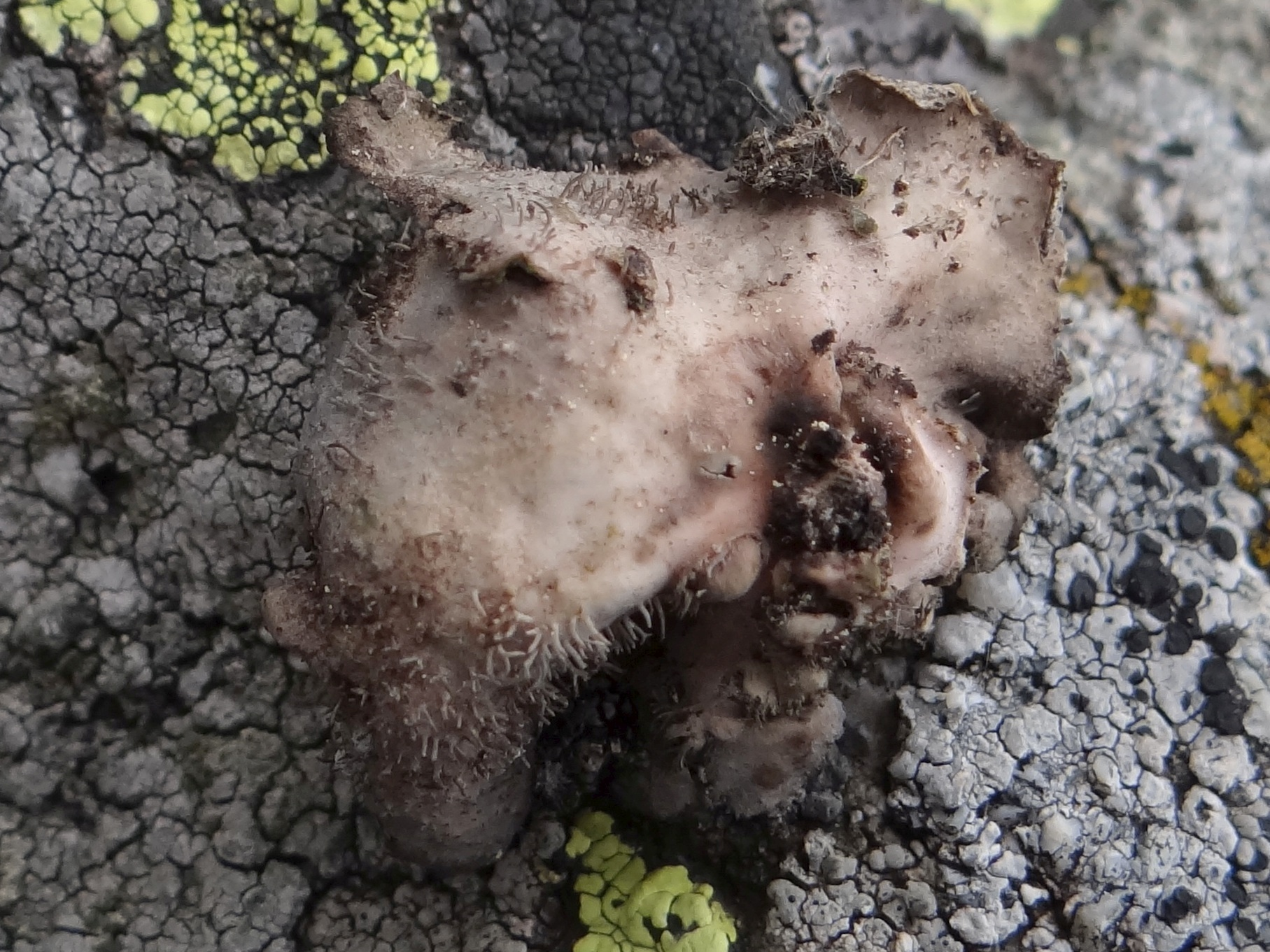 Umbilicaria proboscidea, lower side (location: Poland, High Tatra Mountains, Zielona Dolina Gąsienicowa)